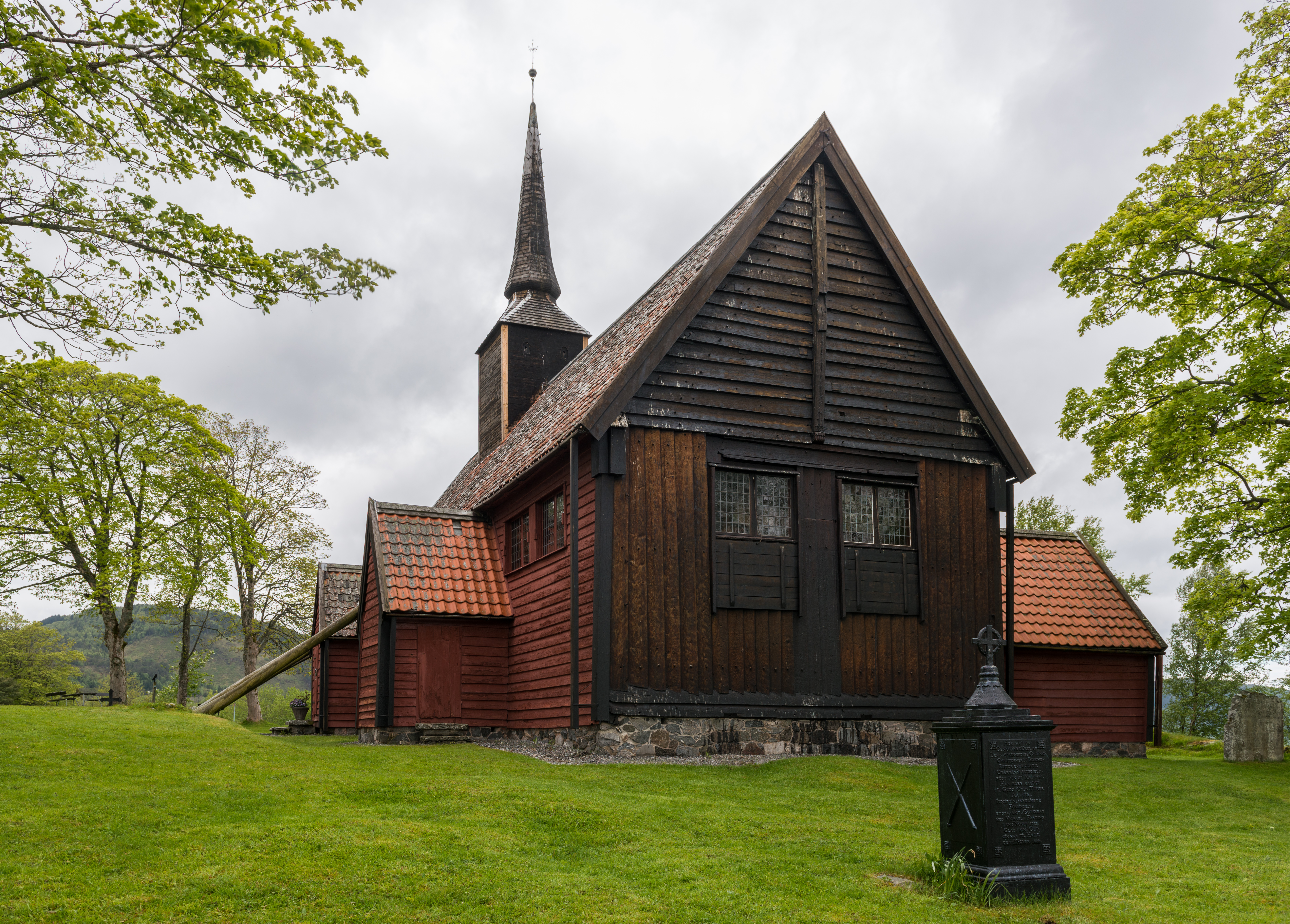 An east view of Kvernes stave church in Averøy